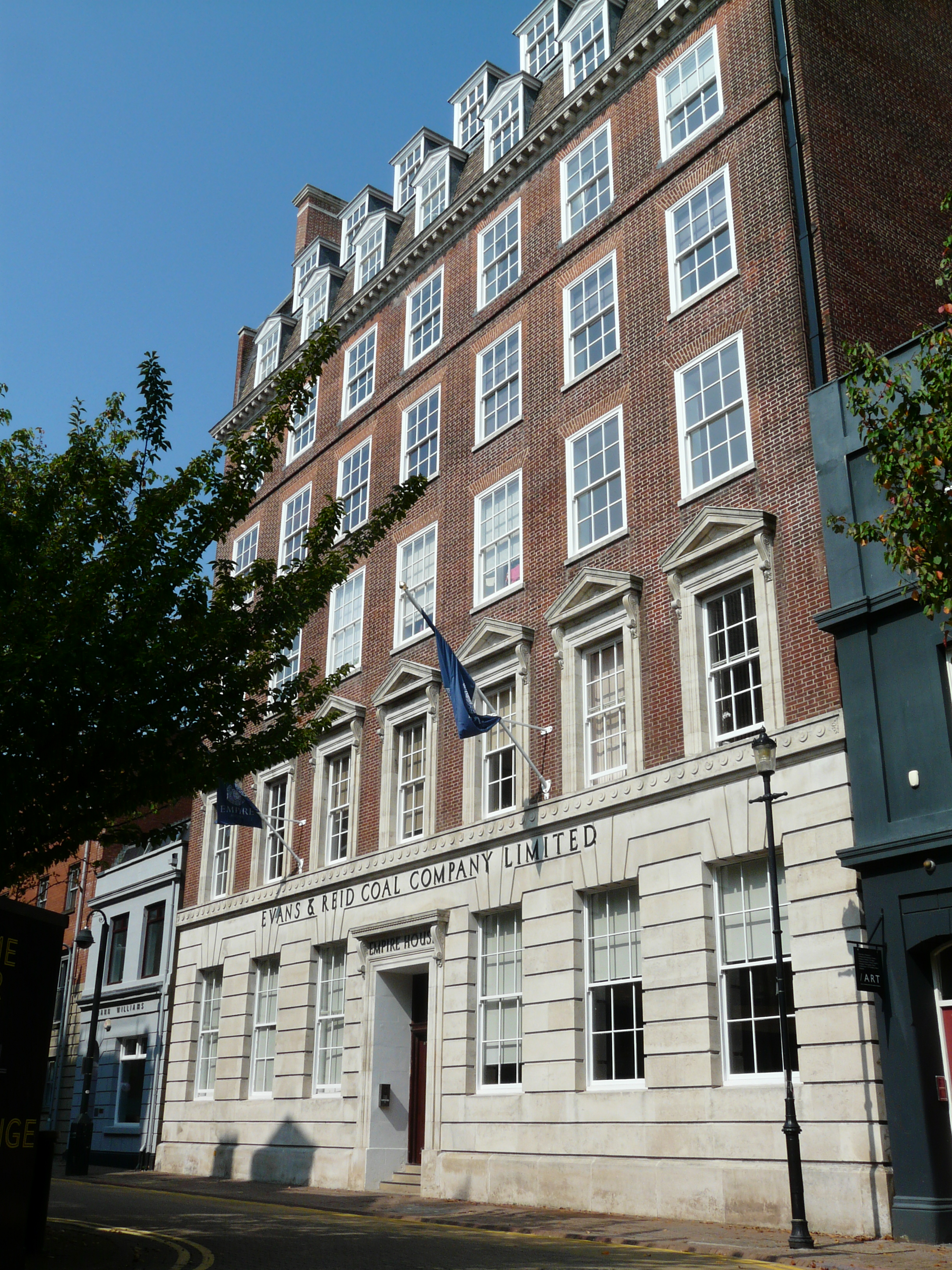 Empire House, Cardiff Wikidata has entry Q17741025 with data related to this building.